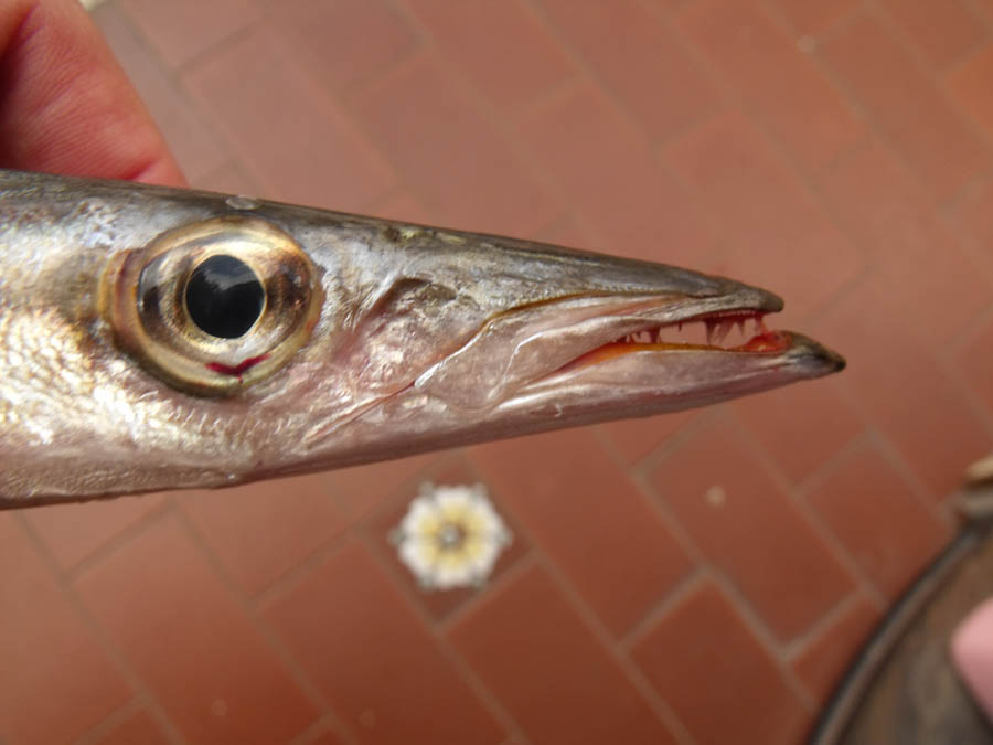 Head of a Sphyraena sphyraena from the Rome fish market.